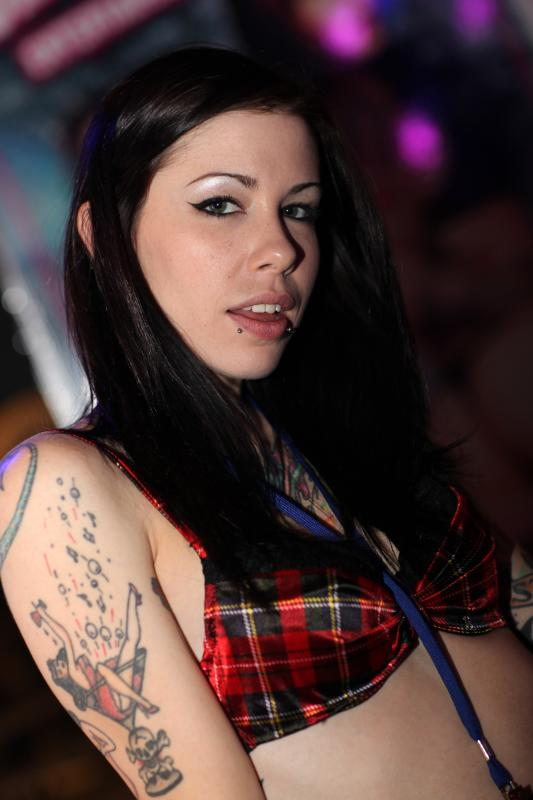 Krysta Kaos at the 2012 AVN Expo & AVN Awards held at the at the Hard Rock Hotel & Casino in Las Vegas. Please provide photographer credit when using, tweeting, etc... Photo by Michael Dorausch This photo is licensed under a Creative Commons license. If you use this photo within the terms of the license or make special arrangements to use the photo, please list the photo credit as "Michael Dorausch" and link the credit to .